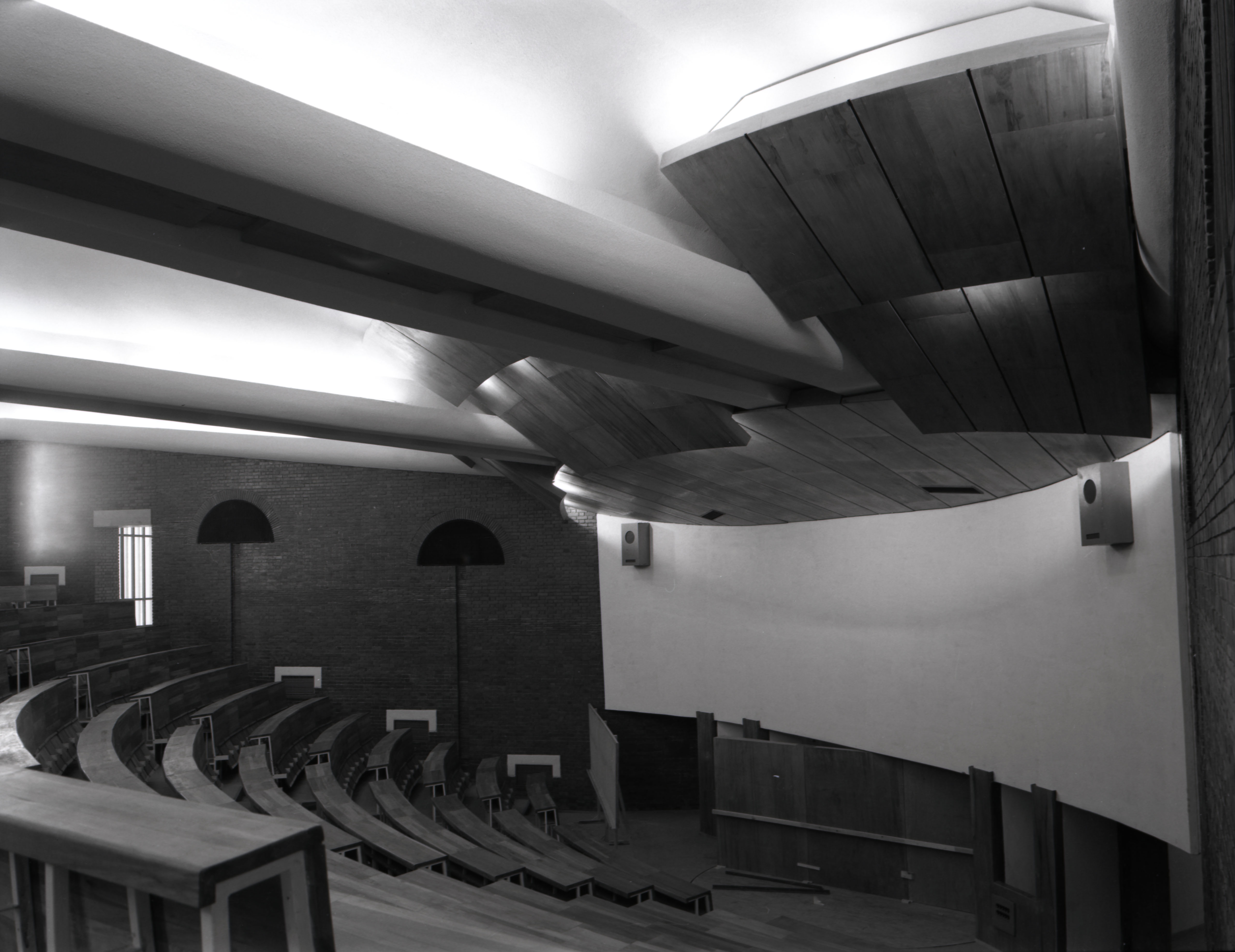 Three parted lecture hall, inner view, 1961-1980 SALT Research, Altuğ-Behruz Çinici Archive Üçlü amfi, iç mekan görünüşü, 1961-1980 SALT Araştırma, Altuğ-Behruz Çinici Arşivi